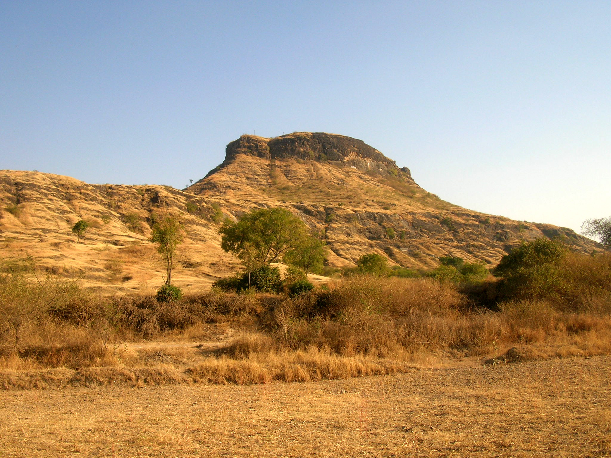 Pengiri fort view from base